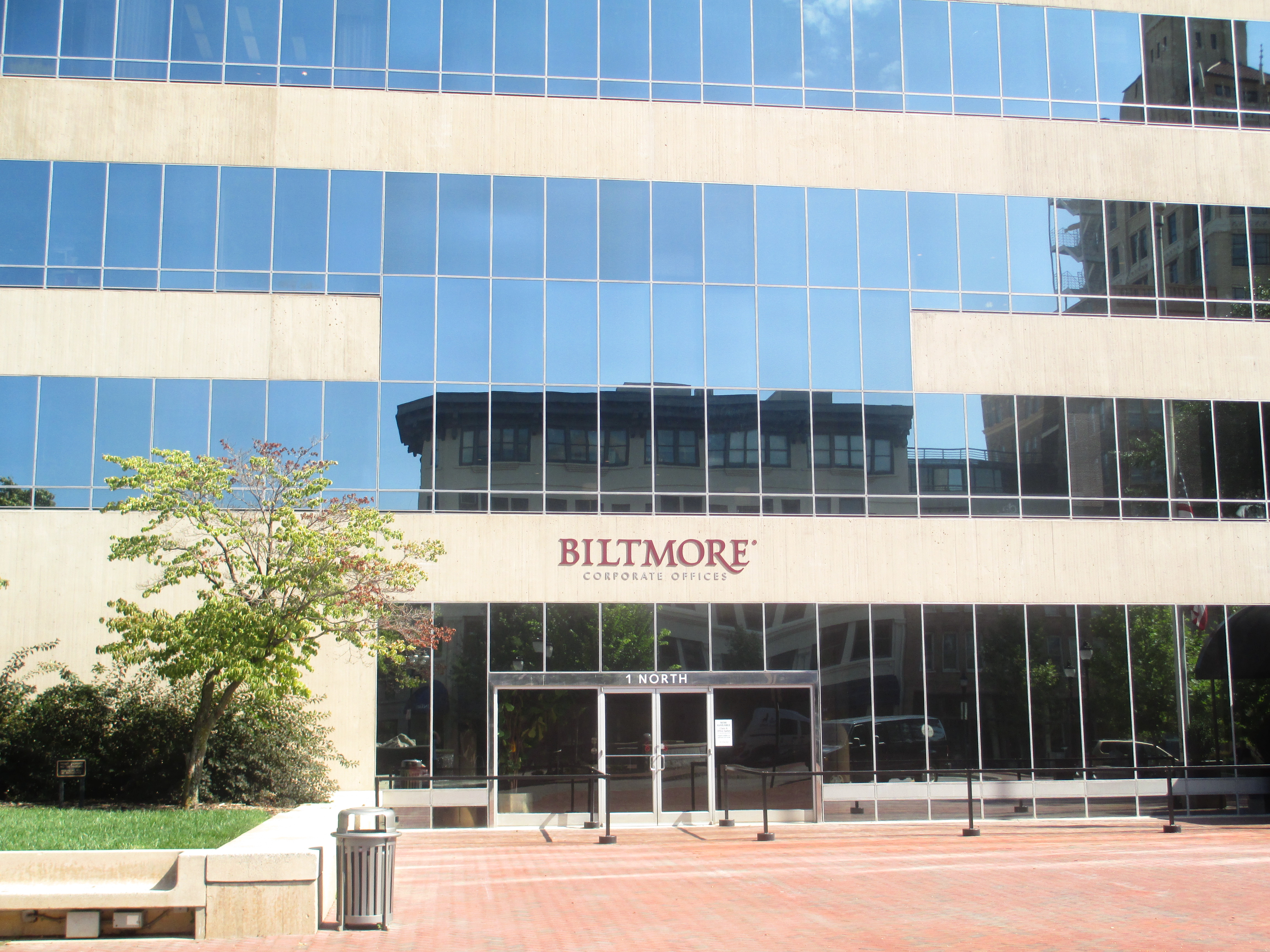 I took photo of Biltmore Corporate Office in Asheville, NC, with Canon camera.